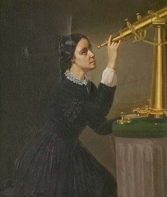 Herminia B. Dassel portrait of Maria Mitchell, ca. 1851, The Archives and Special Collections of the Nantucket Maria Mitchell Association. Note: The portrait was gifted to the Mitchell House in the early 1990s, coming from the estate of Sally Mitchell Barney’s (Maria’s oldest sister) granddaughter, Virginia Barney.